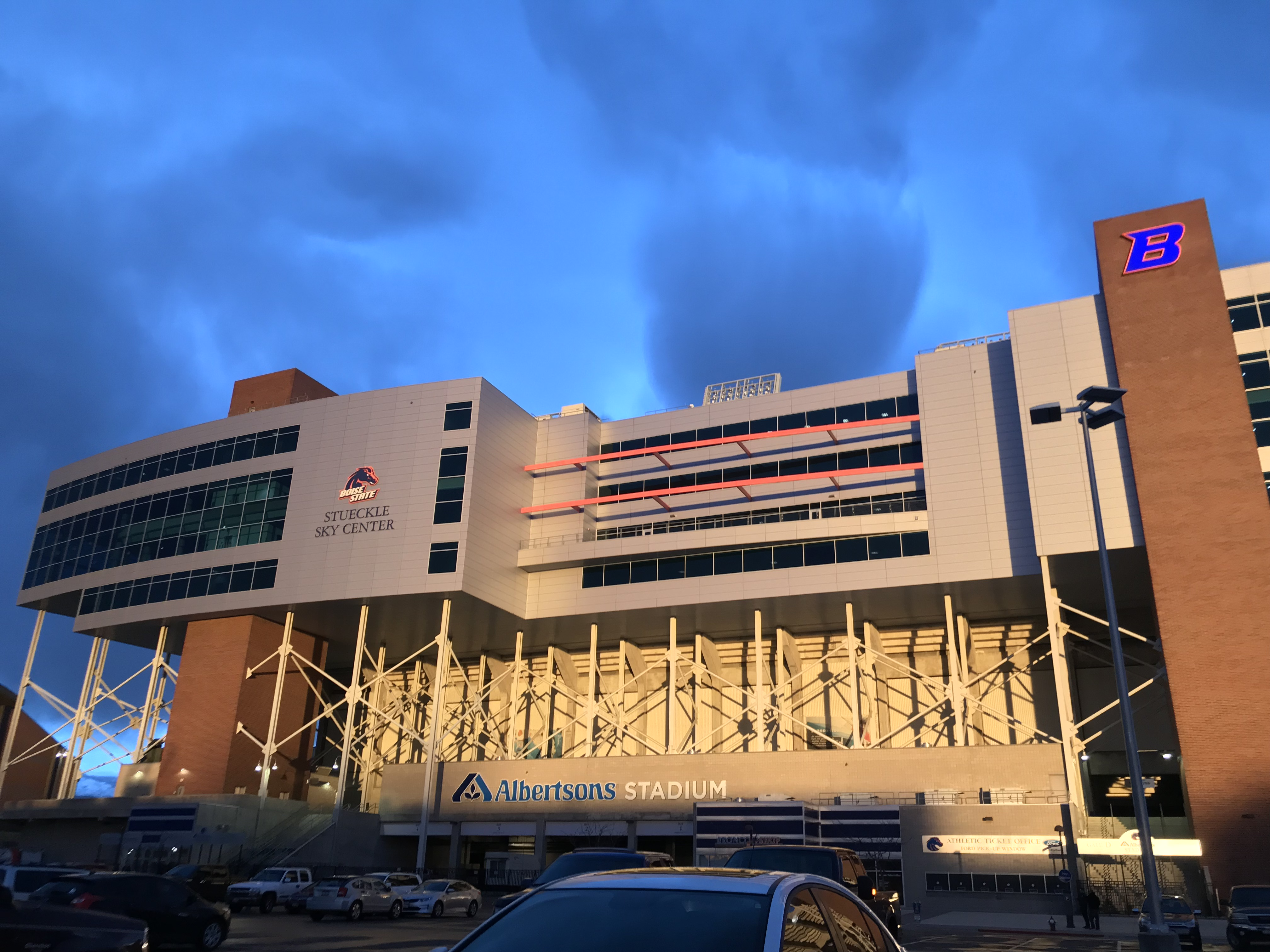 This is the Stueckle Sky Center, part of Albertsons Stadium.